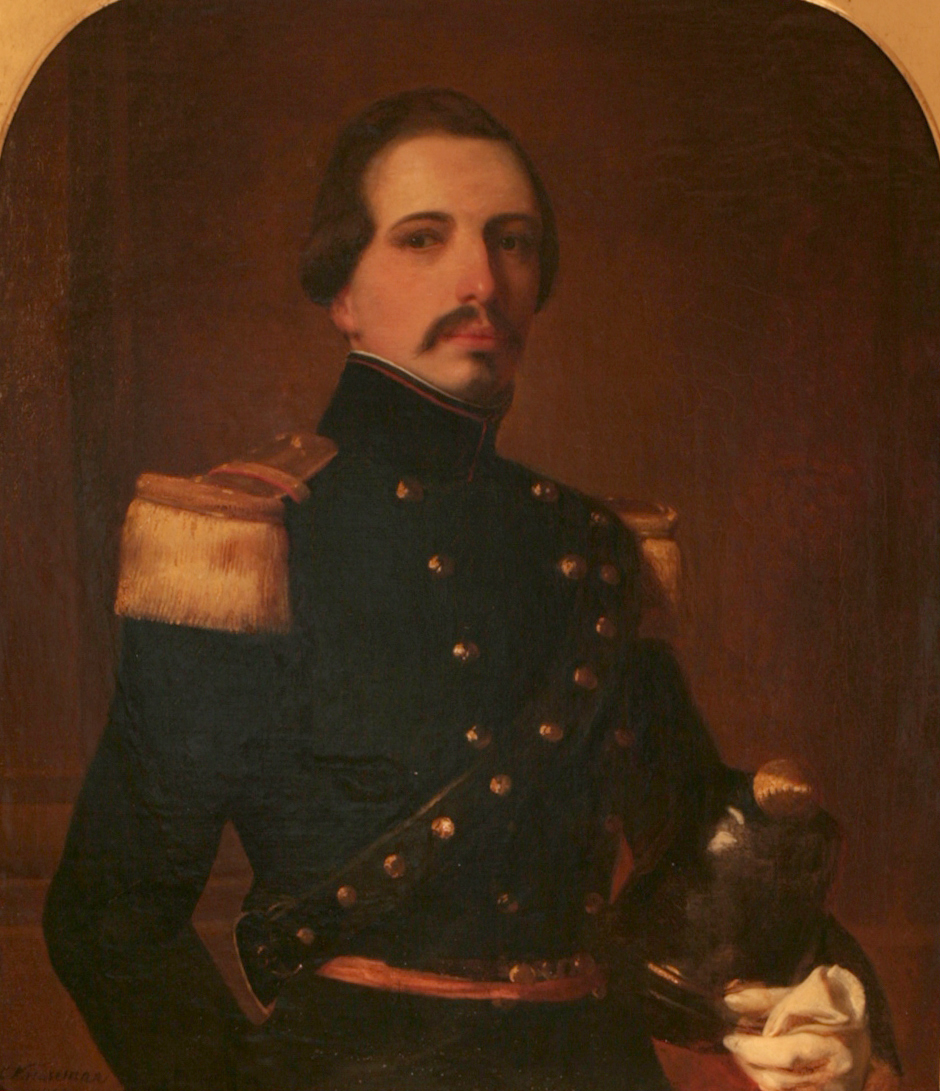 Portrait of Constant Gauttier Cathérine François Ising, oil on canvas, 91,5 x 80 cm.